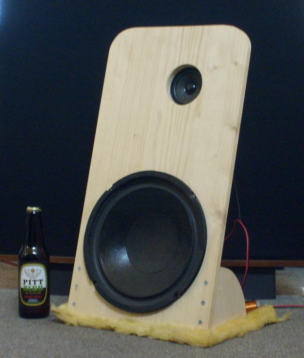 Simple DIY dipole-loudspeaker.